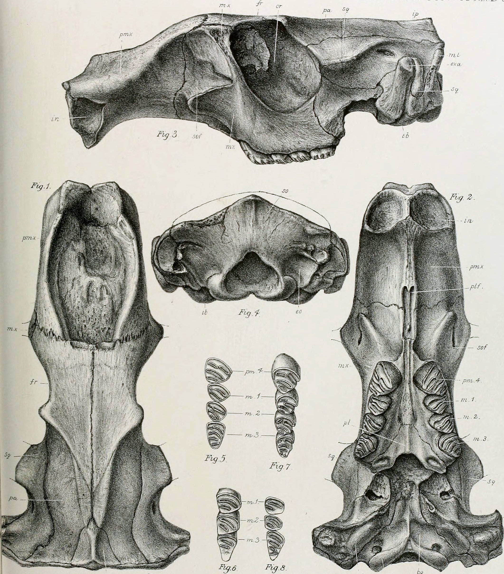 Skull and teeth of Trogontherium Cuvieri.